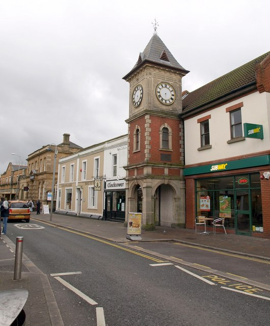 Clock Tower, Kingswood The three-storey tower on Regent Street was built in 1897 for Queen Victoria's diamond jubilee, and looks thoroughly distinctive with its red brick central stage and lipped slate roof with dormers, a curious mix of the classical and gothic .